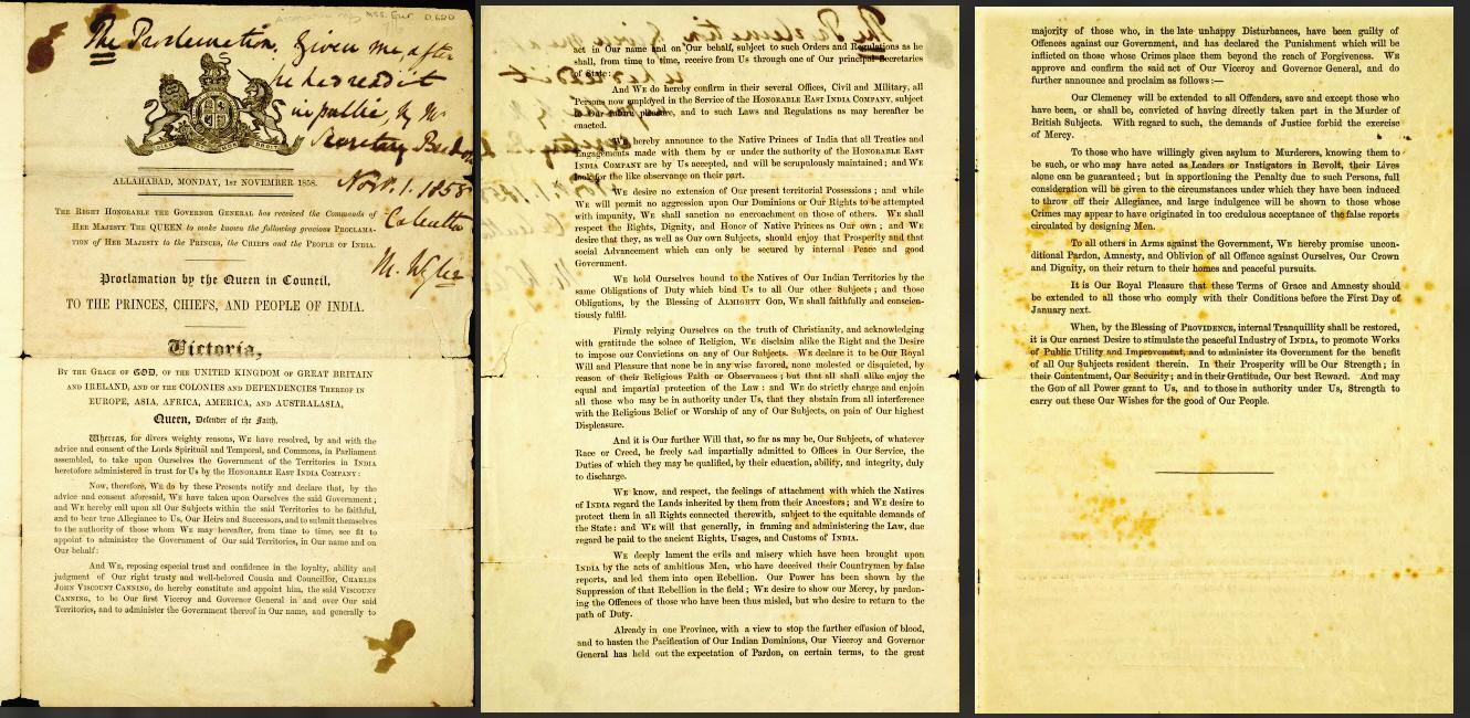 Reduced Image of Queen Victoria's proclamation to the Indian people at the commencement of direct rule by the British Crown. Allahabad, India. 1858. Downloaded from Moving Here--Migration Histories web site by Fowler&fowler«Talk» 22:00, 25 September 2007 (UTC)